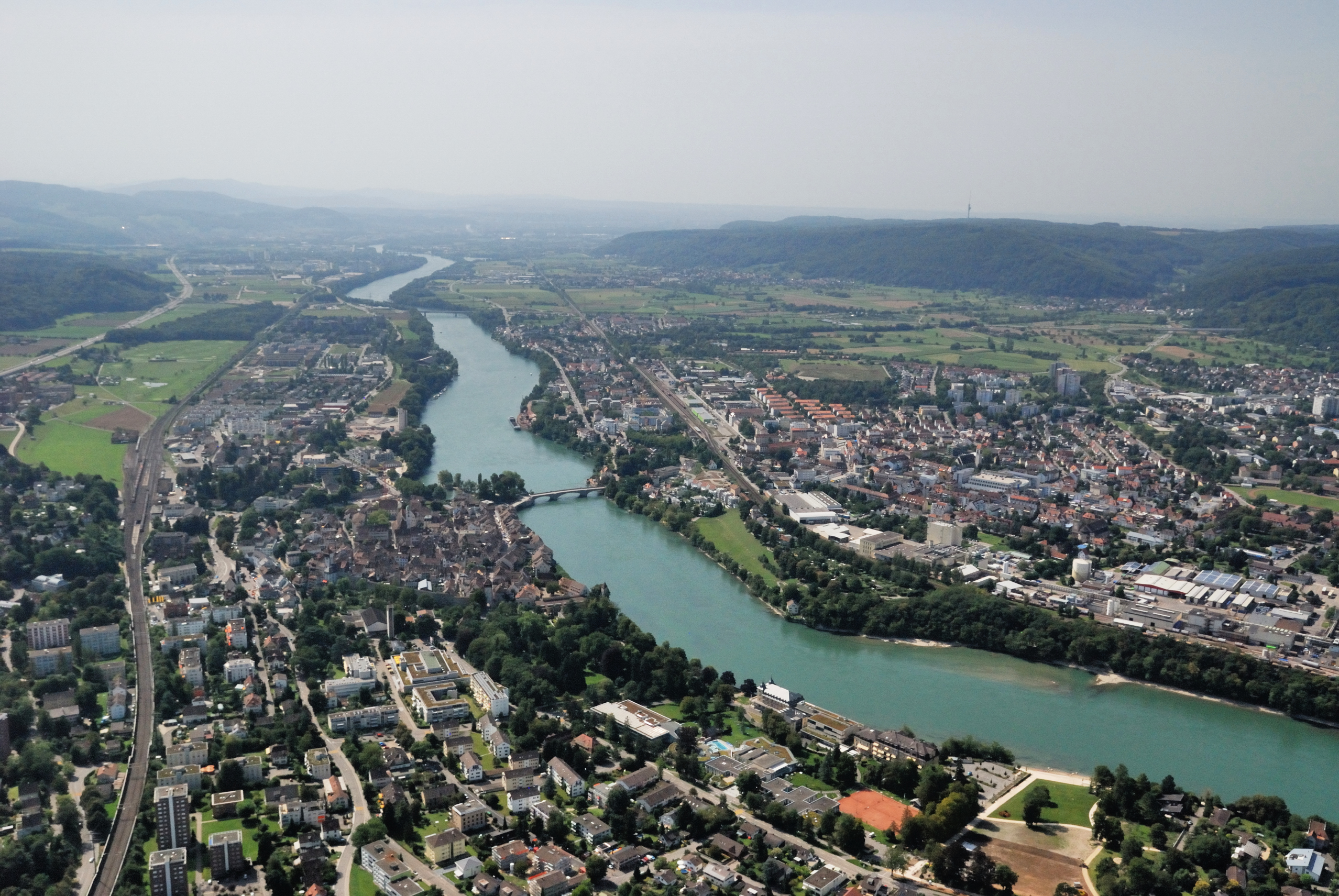 aerial view of Rheinfelden, Switzerland and Rheinfelden (Baden) apart from the River Rhine